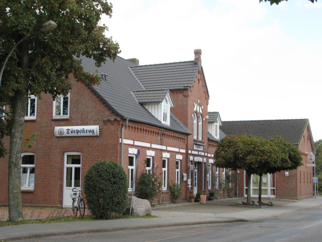 Dörpskrog-restaurant in the municipality of Ahrenshöft, Germany